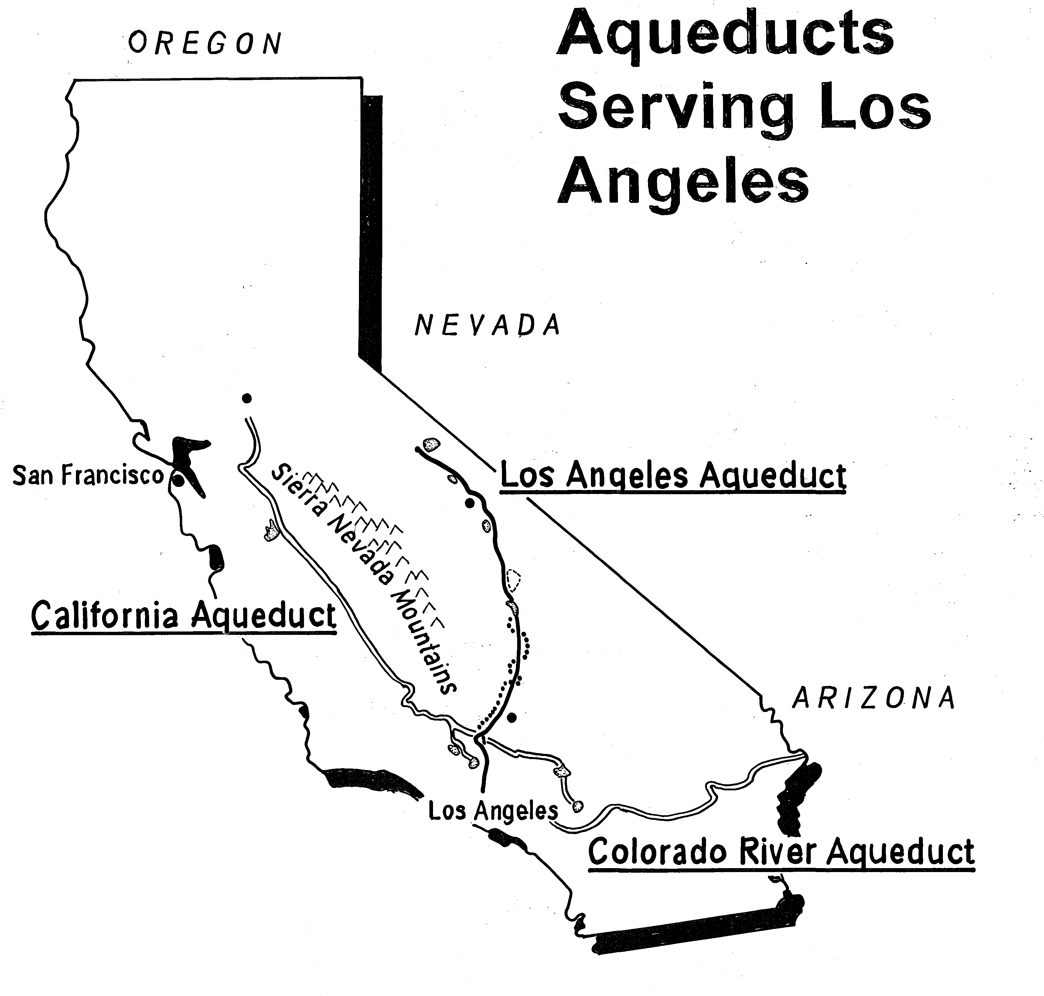 Crop from Los Angeles Aqueduct, From Lee Vining Intake (Mammoth Lakes) to Van Norman Reservoir Complex (San Fernando Valley), Los Angeles, Los Angeles County, CA